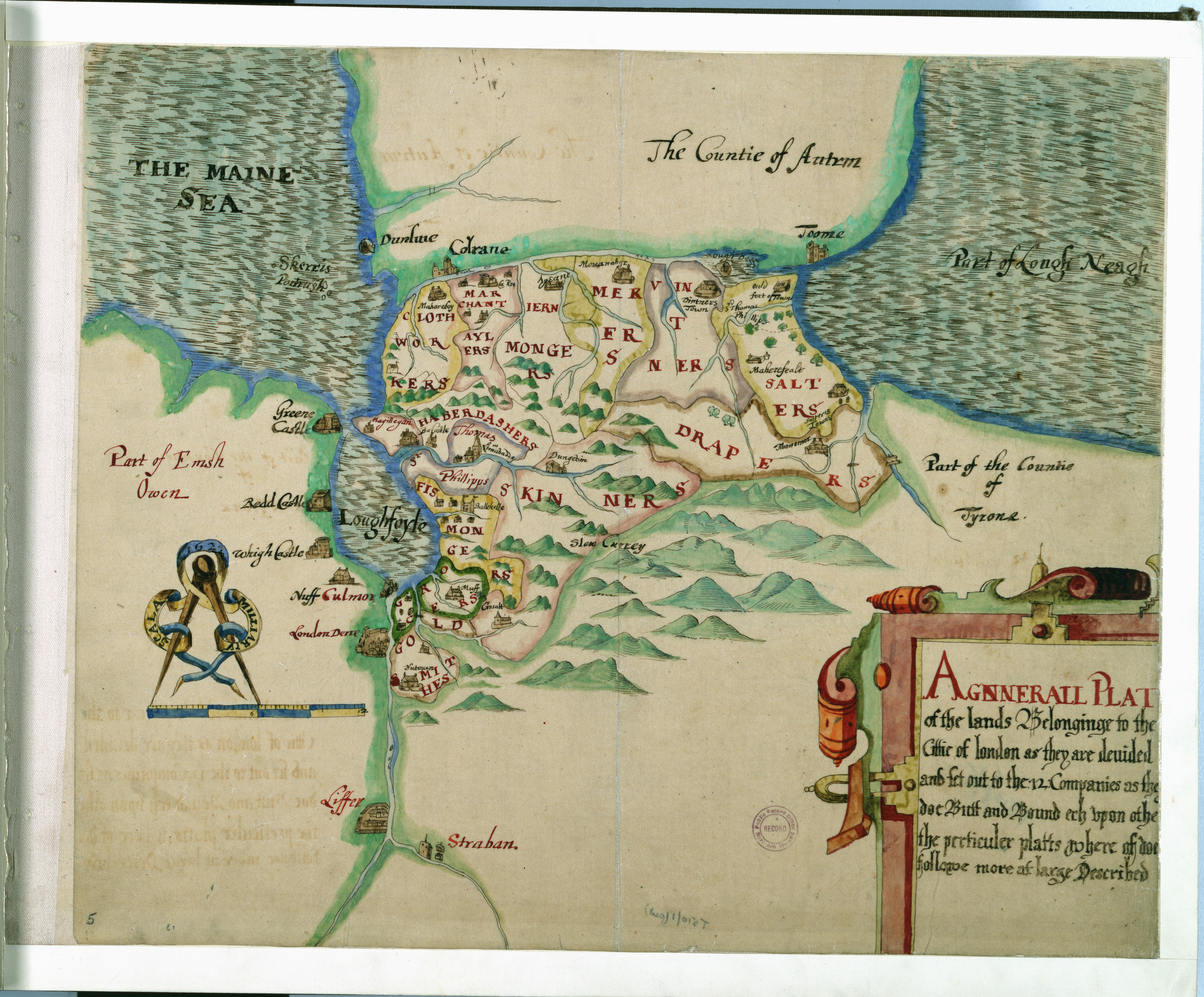 Creator: Sir Thomas Phillips Date: 1836 (traced copies of earlier maps made in 1622) Original Format: Book of traces Description: Map Trace A generall plat of the lands belonging to the Cittie of London as they are devided and let out to the 12 Companies. From book of traces from Phillips' surveys and maps - illustrating Londonderry and the London Companies, 1622, made in 1836. PRONI Ref: T510/1/5 NB: The original copies of these maps, dating from 1622 are held by Lambeth Palace Library (Ref: MS 634) Copying and copyright: Please For Copy Orders, contact: For fees and charges